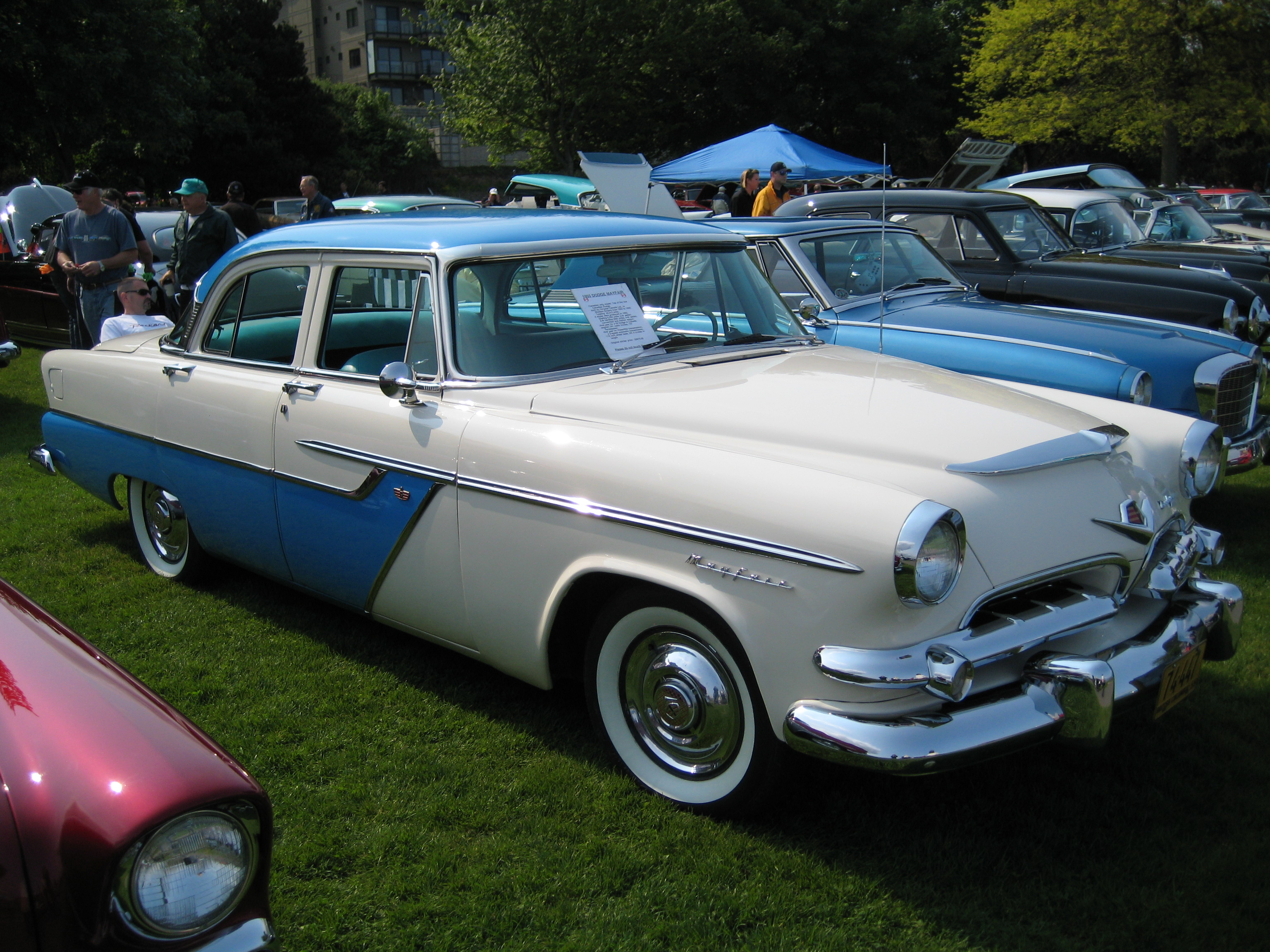 Very nice Canadian Dodge Mayfair at this show on the waterfront in Bellingham. Not far from Canada, so there were several cars down from British Columbia. Does not have the U.S. Dodge Hemi engine, but the Polysphere Plymouth engine. Similar cars were assembled in other countries, sometimes badged as Desoto. Parts were generally sourced from Canada because of its membership in the Commonwealth of Nations.